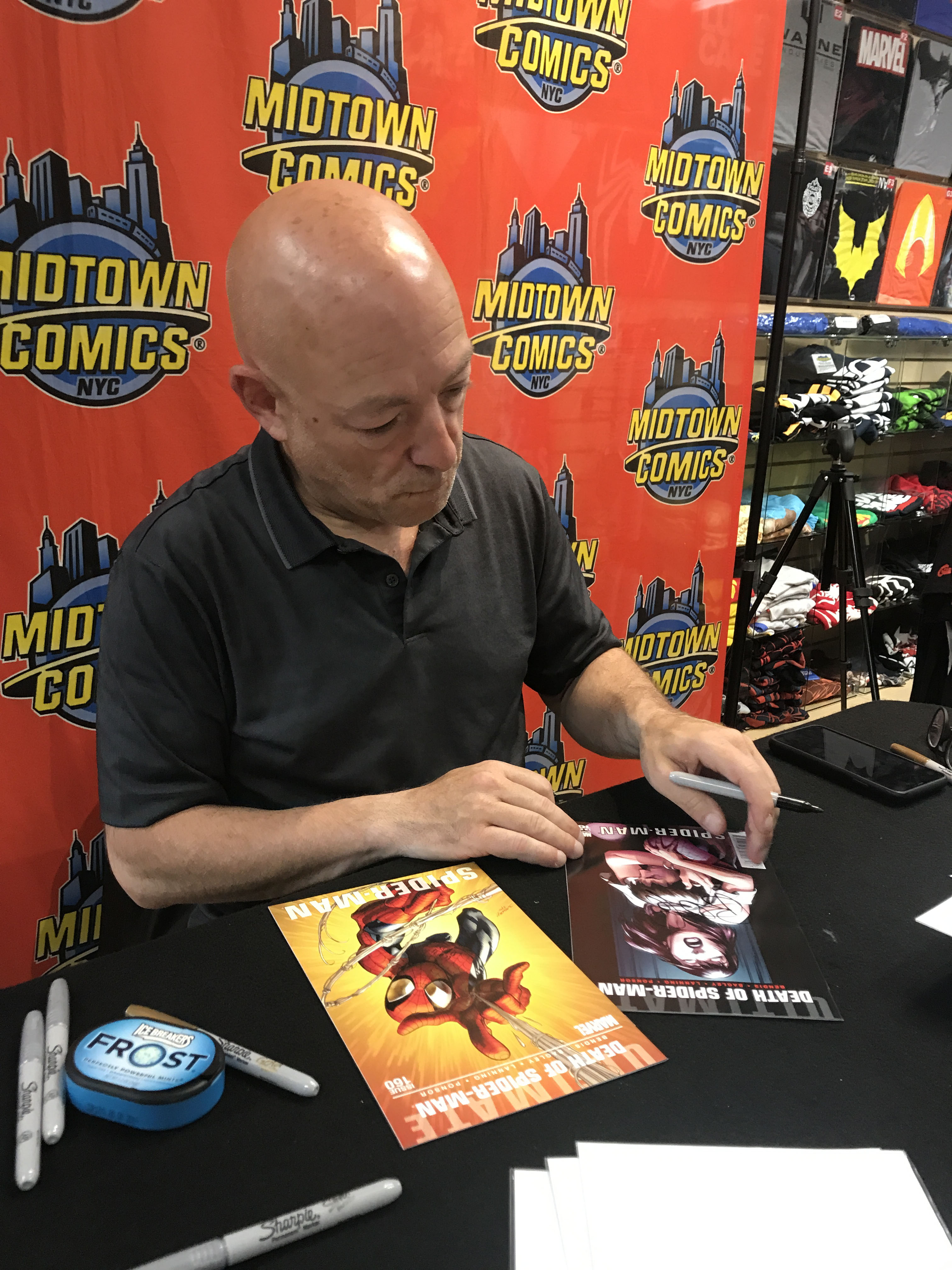 Comics writer Brian Michael Bendis at a July 24, 2019 open book signing at Midtown Comics Downtown in Lower Manhattan. In the photo, Bendis is signing copies of Ultimate Spider-Man featuring the 2011 Death of Spider-Man storyline. This photo was created by Luigi Novi. It is not in the public domain, and use of this file outside of the licensing terms is a copyright violation.